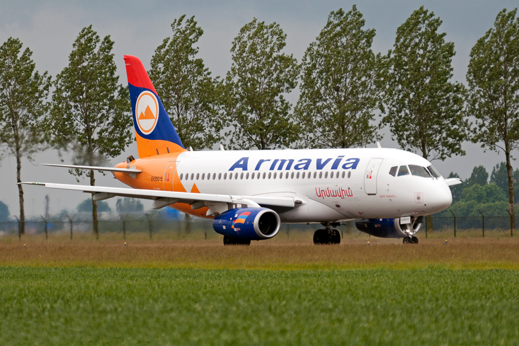 4th visit to AMS, here taxiing to 36L Sukhoi Superjet 100-95B Amsterdam schiphol [AMS / EHAM] 03-06-2012